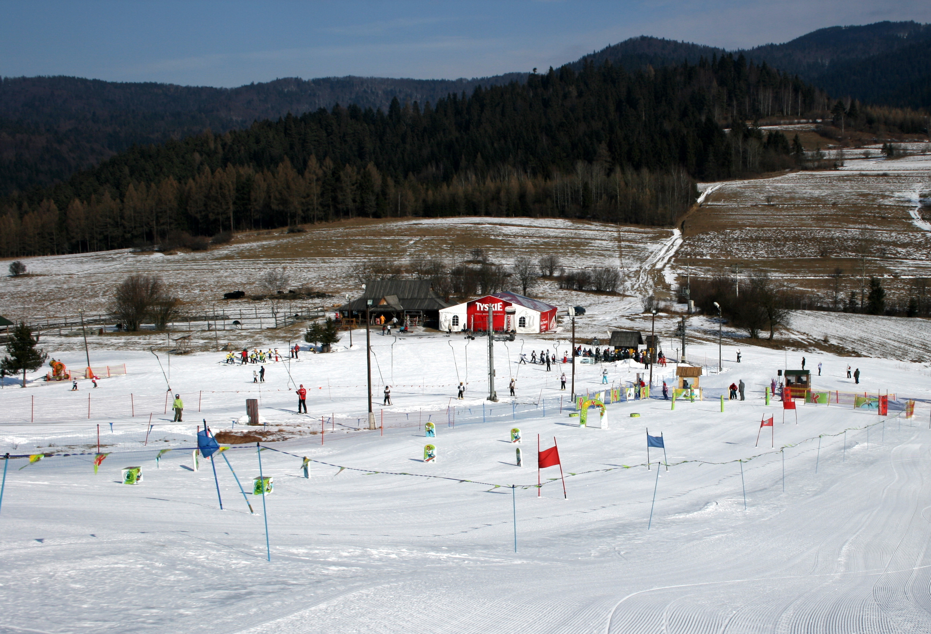 Beginner slope in Czorsztyn-Ski ski area in Kluszkowce